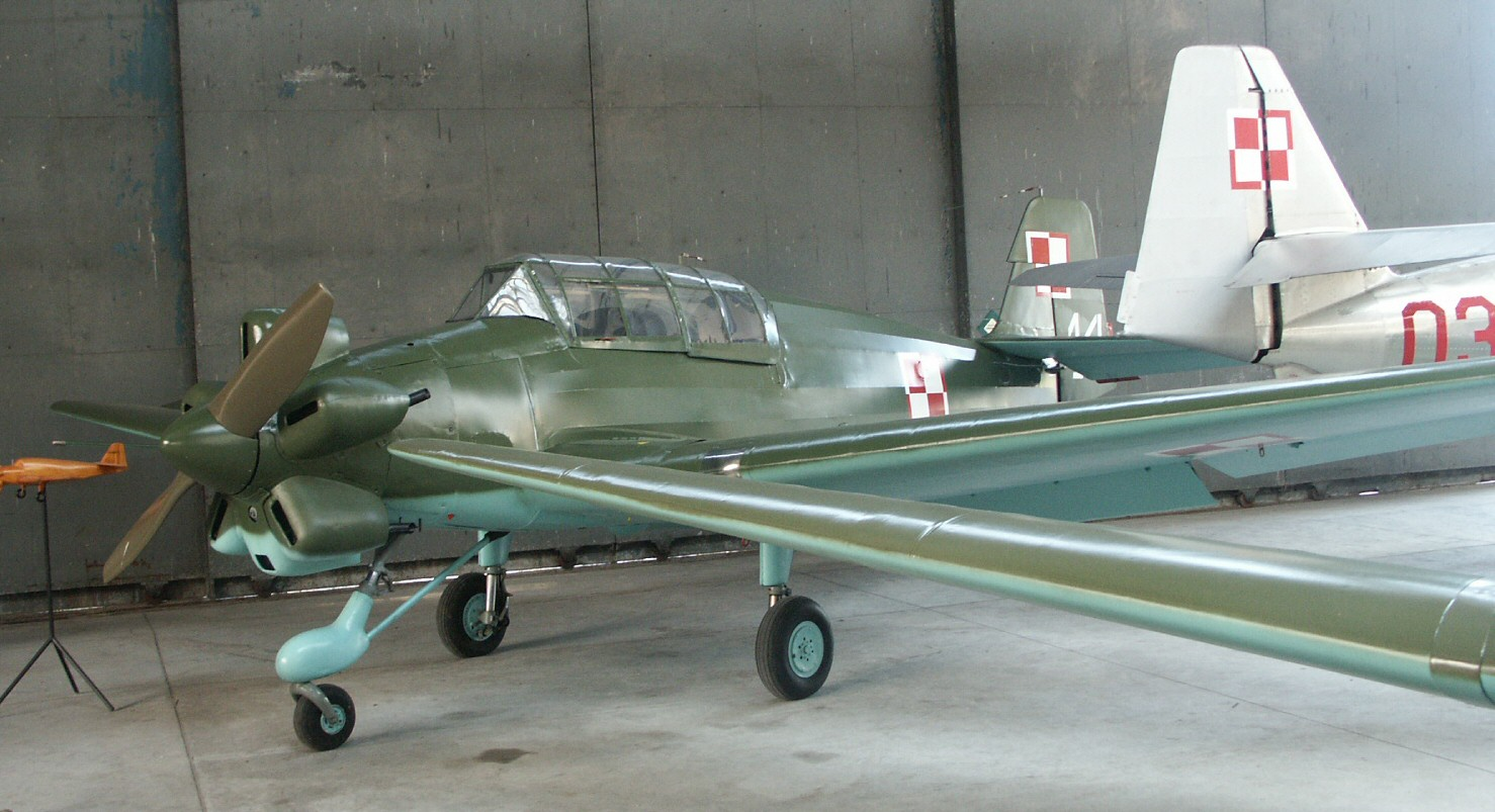 Polish LWD Junak-3 trainer aircraft in the Polish Aviation Museum in Kraków